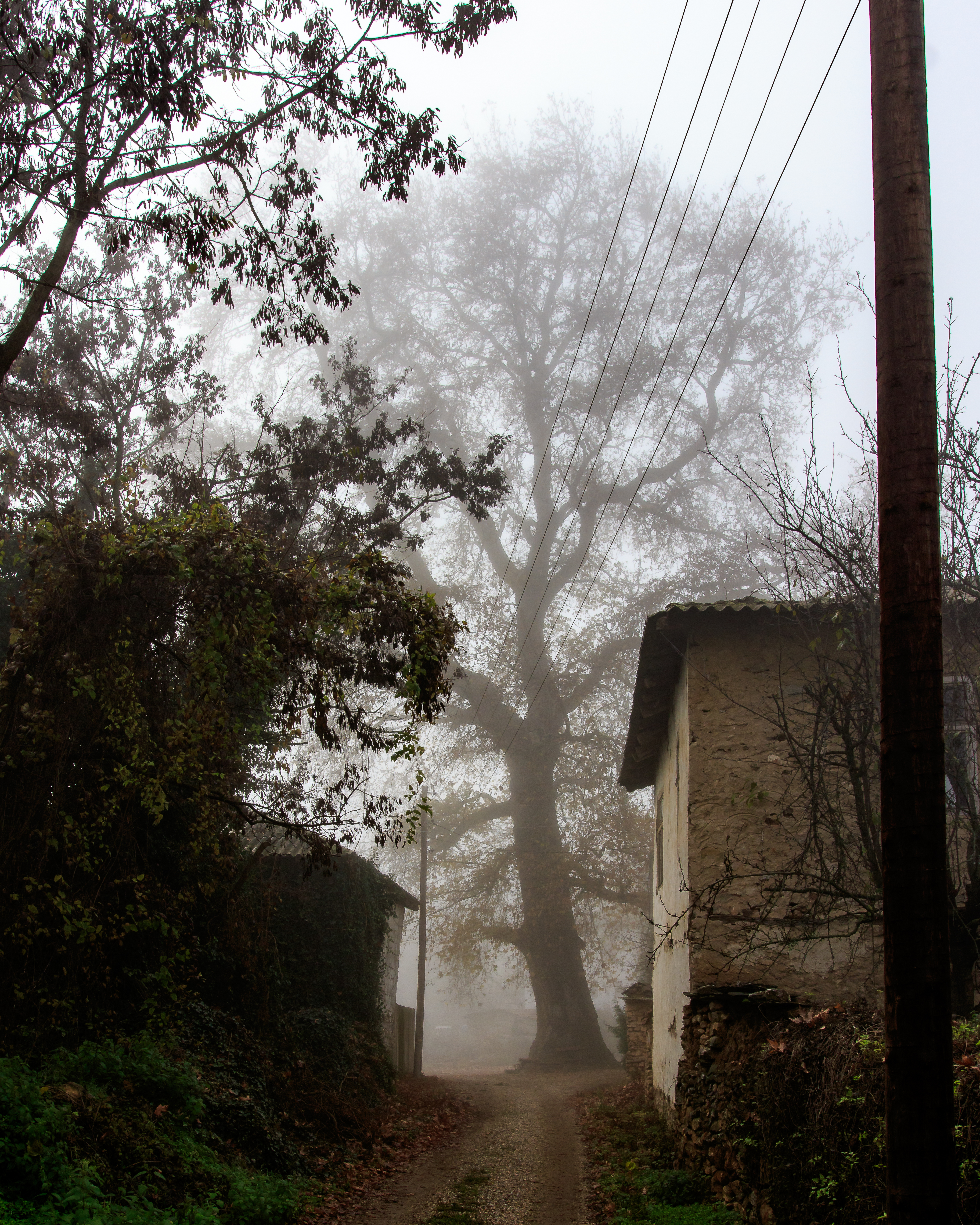 Alley in the village of Gorno Čičevo.